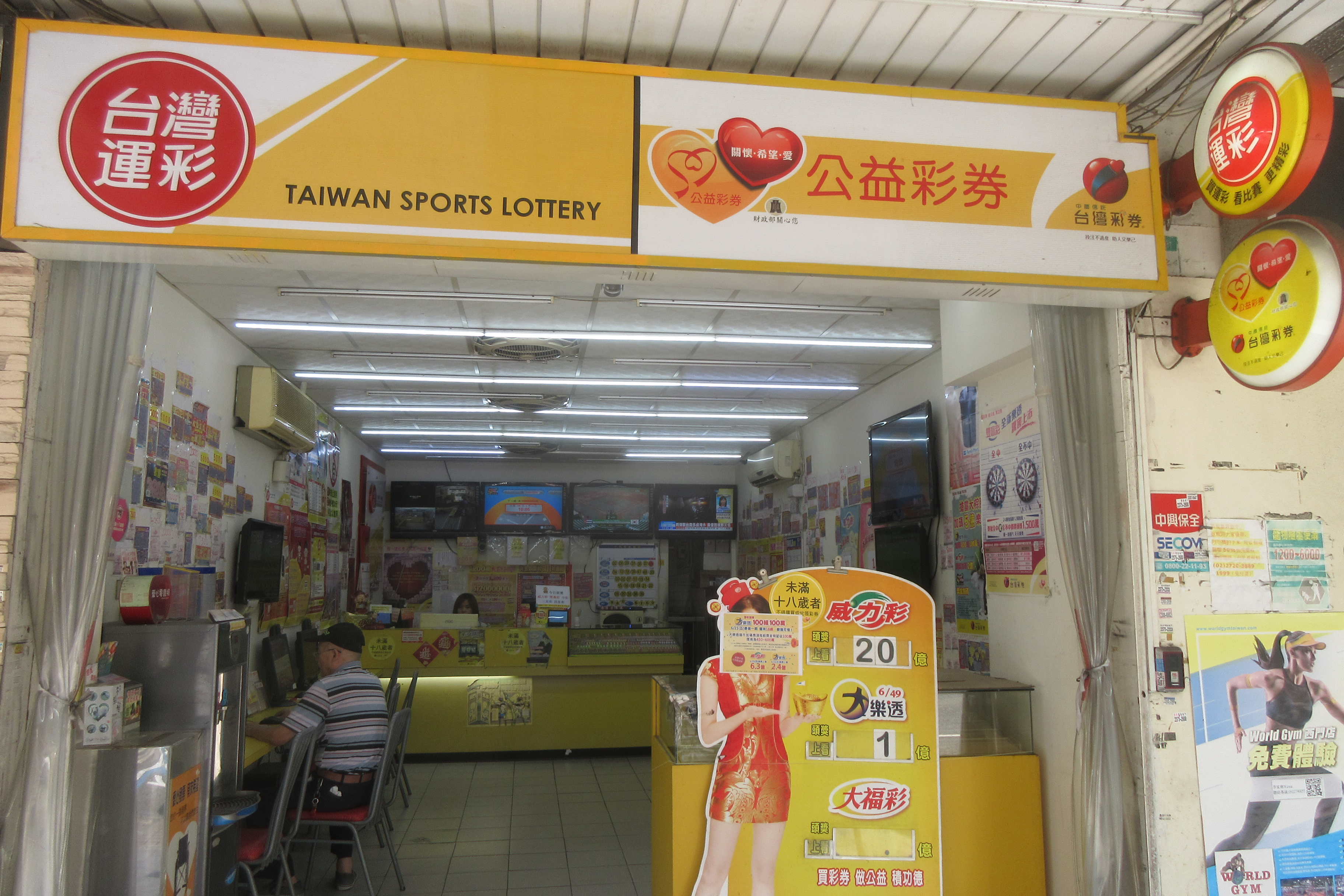 Taipei City morning in August 2019